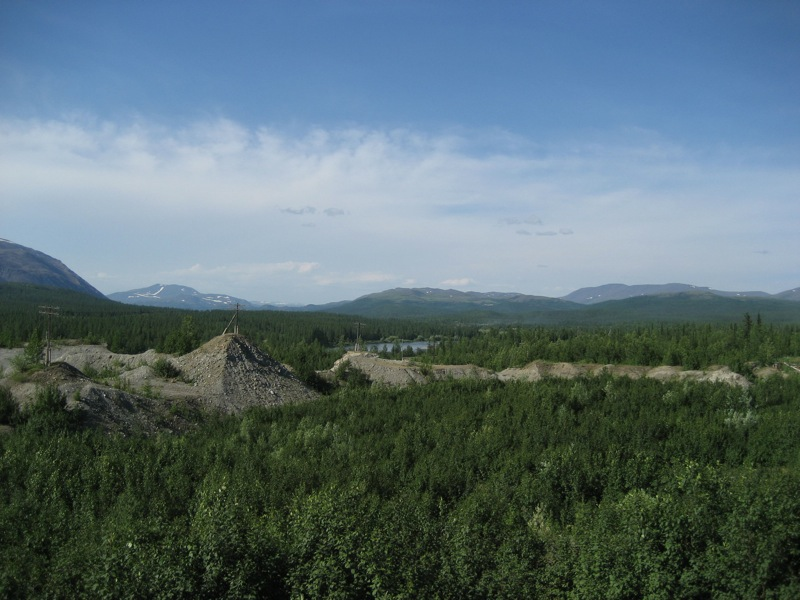 The Polar Urals near the Sob river (Russia).